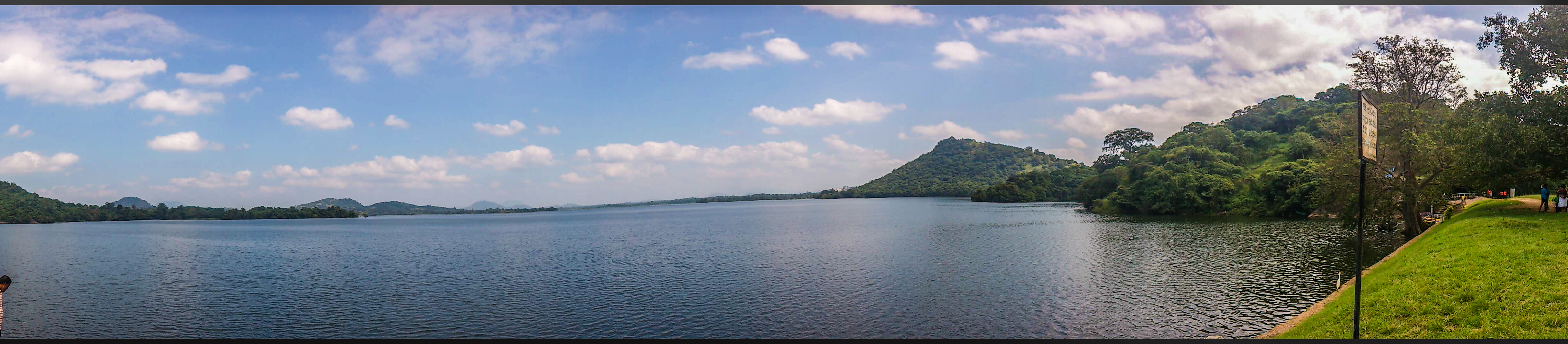 Panoramic view of the Sorabora Lake